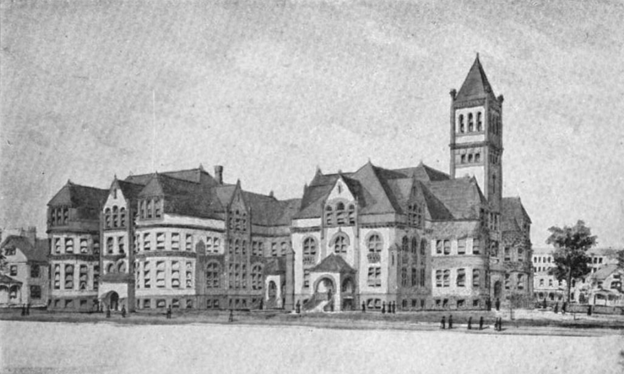 Illustration of Indiana State Normal School from the Legislative and State Manual of Indiana, 1903, page 324